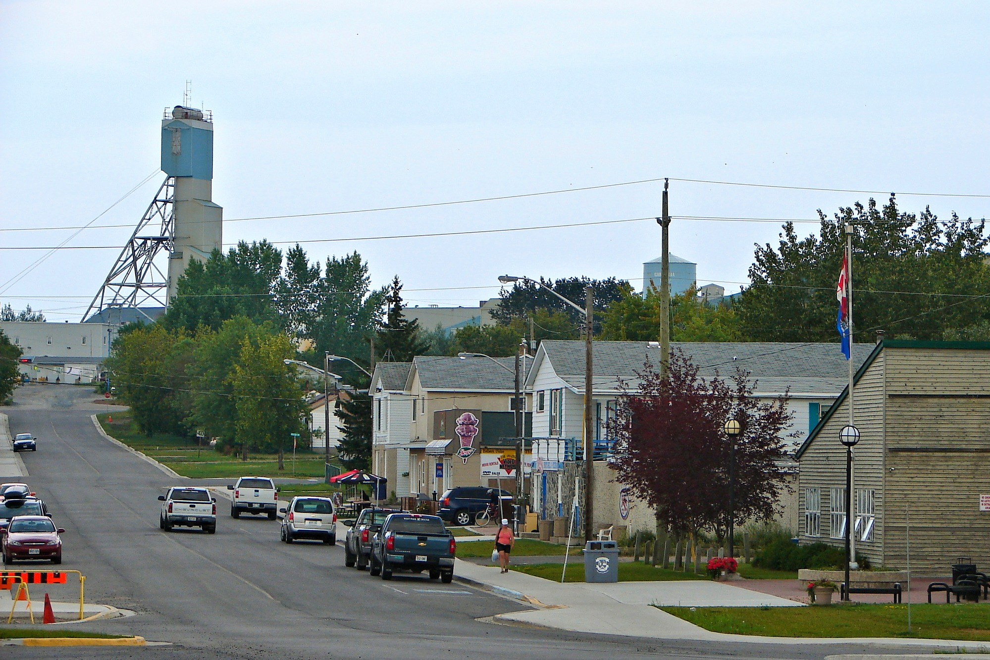 Balmertown (part of Town of Red Lake), Ontario, Canada